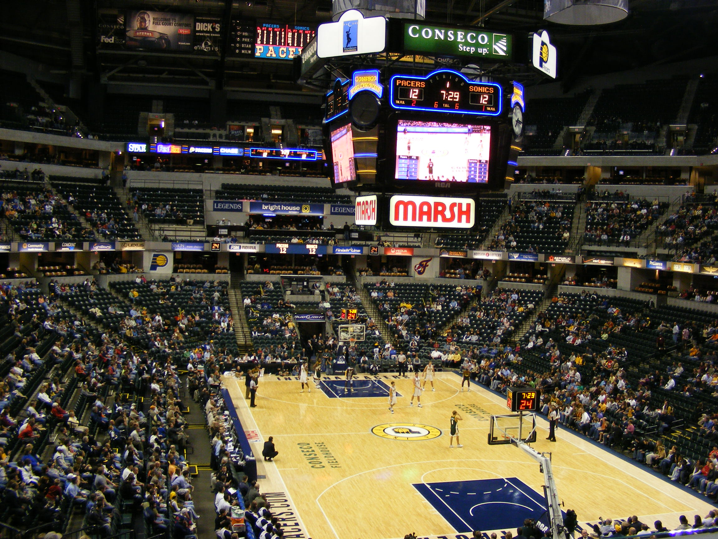 Inside Conseco Fieldhouse during an Indiana Pacers preseason game. October 2007